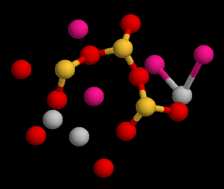 Tri-dimensional crystal structure of the tobermorite mineral, a calcium silicate hydrate (CSH) found in hydrated cement paste